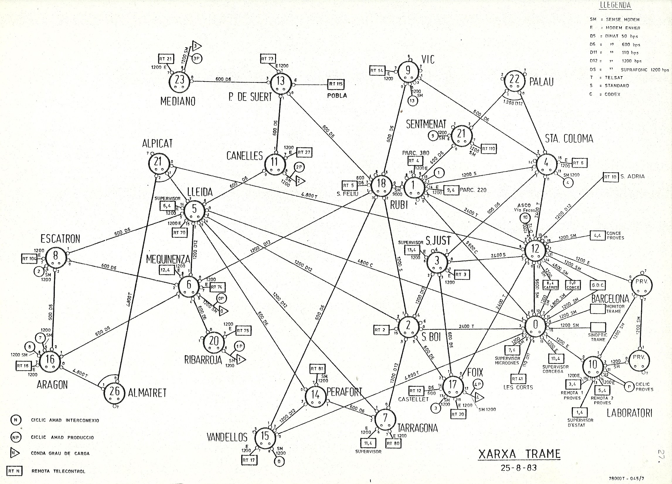 Drawing the TRAME packet switching network by 1983